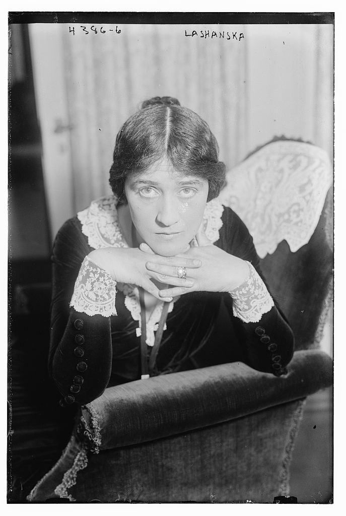 Hulda Lashanska with fingers interlocked in 1917